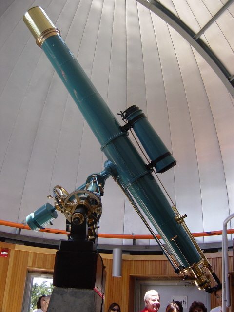 Eight Inch refracting telescope. This picture was taken in July 2004 from the Observatories at Chabot Space and Science Center in Oakland, California. When the picture was taken, the telescope was set up to view Venus in day time. Venus appeared as a crescent when viewed through the telescope.